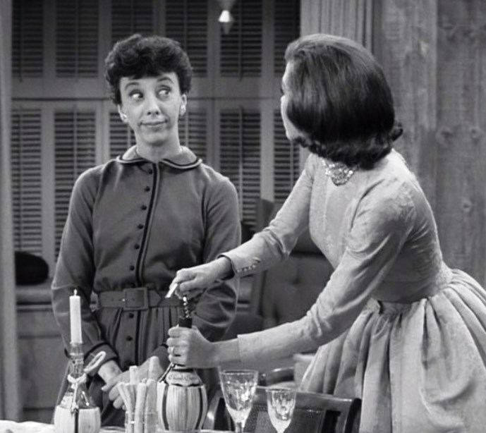 Supporting actor Ann Morgan Guilbert alongside Mary Tyler Moore in the Dick Van Dyke Show episode "The Night the Roof Fell In".